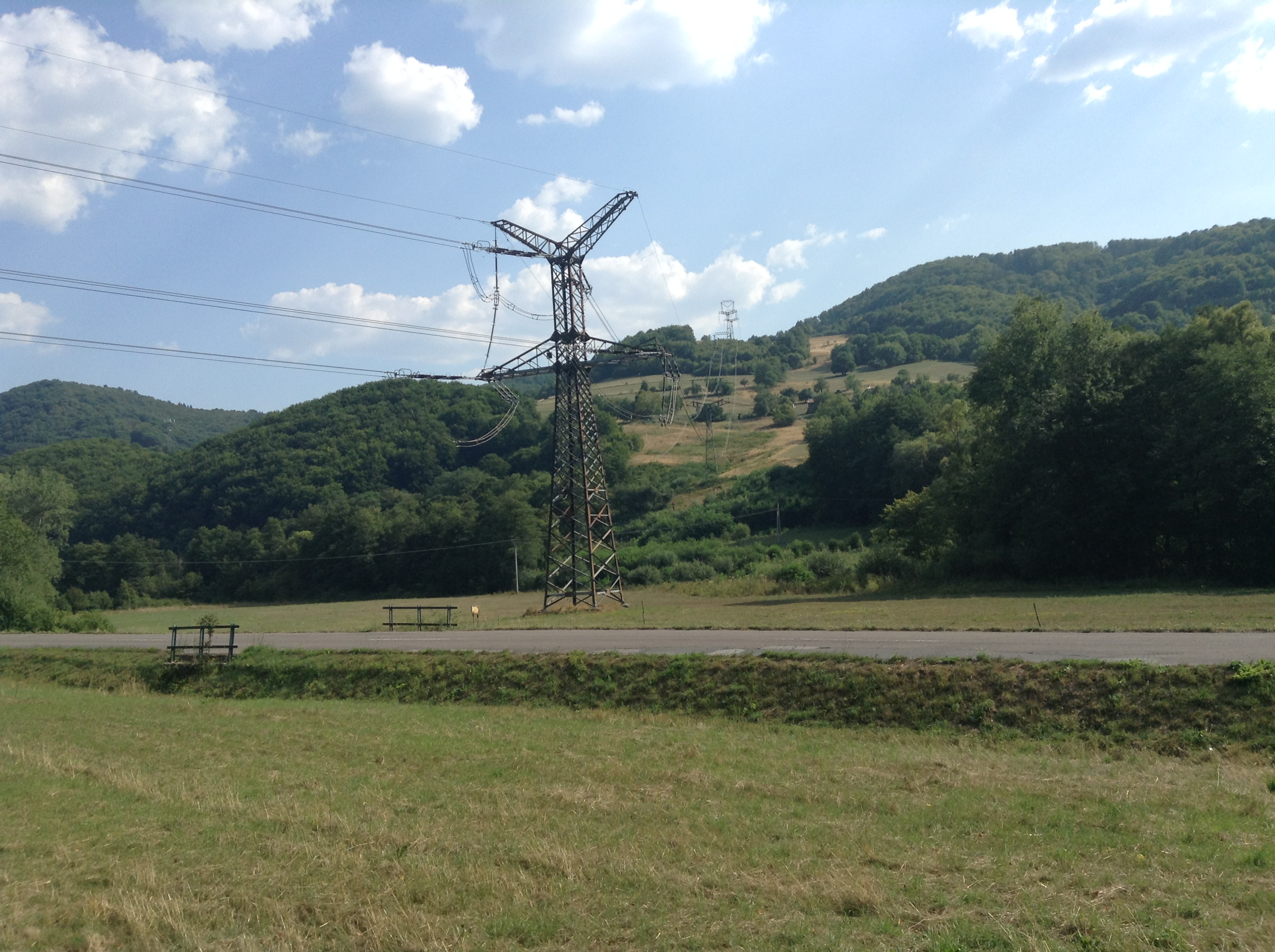 Line number 492 (400kV) belonging to Slovenská elektrizačná prenosová sústava crosses road II/512 between Žarnovica and Horné Hámre, Slovakia.